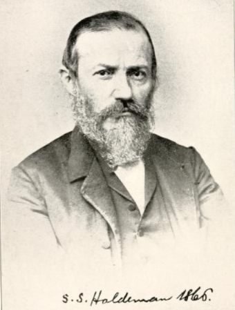 Samuel Stehman Haldeman (1812-1880), American entomologist and philologist.